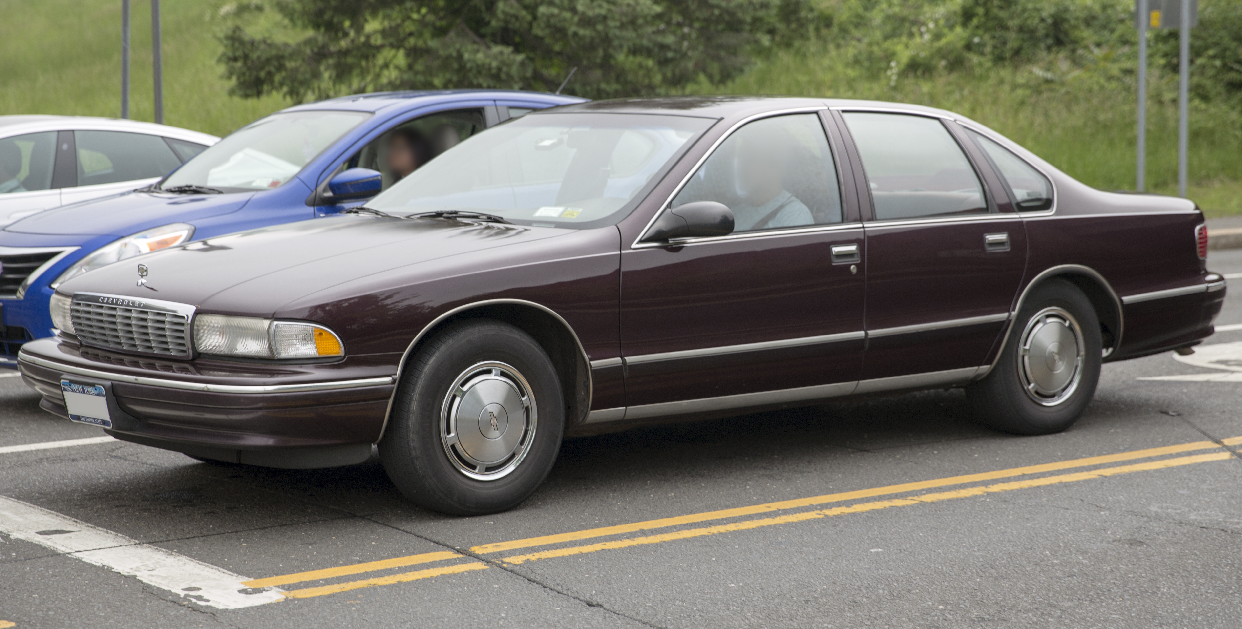 1995 Chevrolet Caprice Classic sedan, clearly beloved by its owner.